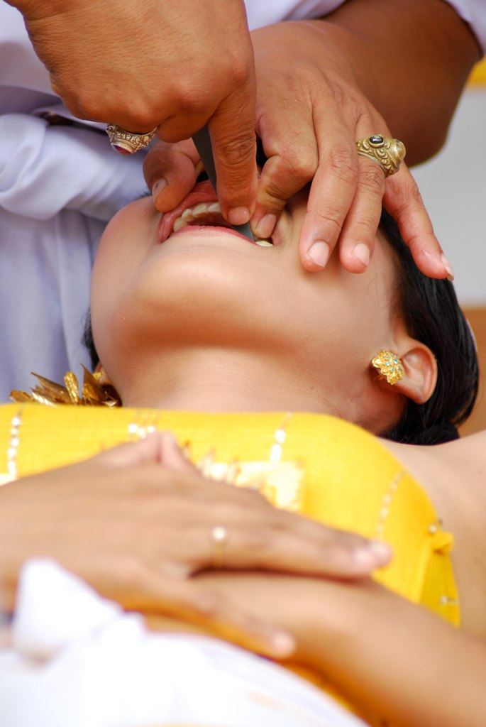 Mepandes, tooth-filing ceremony in Bali